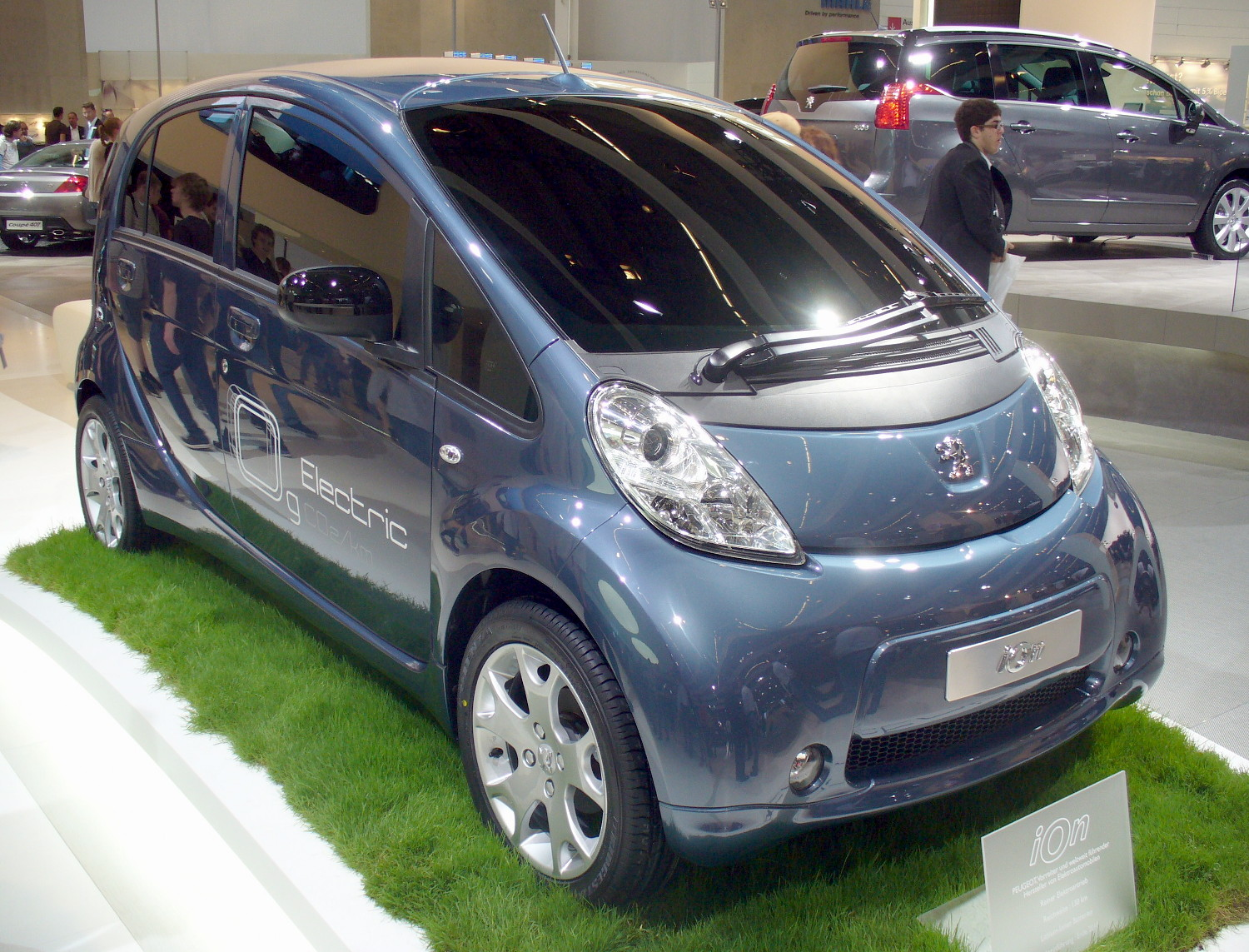 Peugeot iOn, an electric passenger car derived from the Mitsubishi i-MIEV